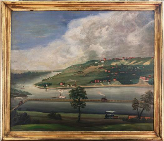 1859 painting by Johann Schroder of Nauvoo, Illinois, from a vantagd point of nearby bluffs on the other and eastern side of the Mississippi River